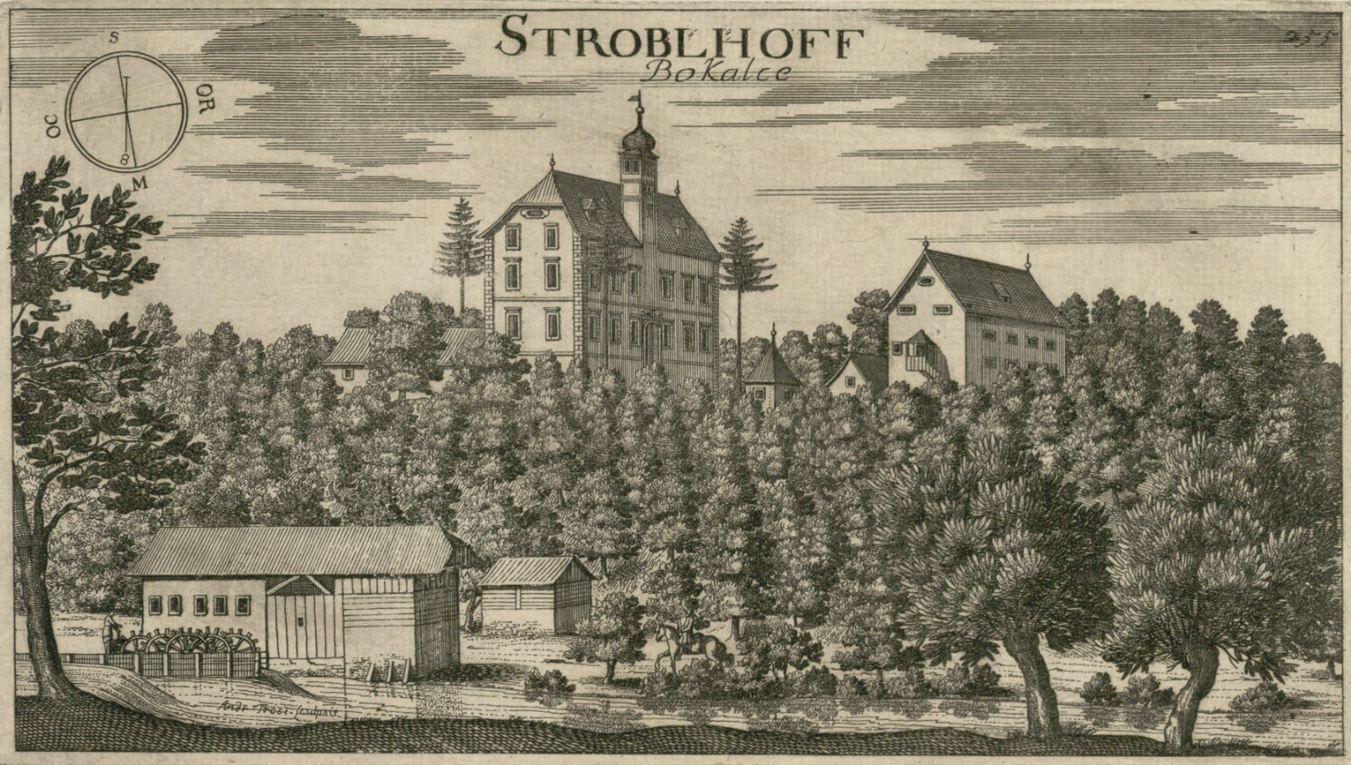 Bokalce-Strobelhoff, Engraving in Valvasor topography, 1679